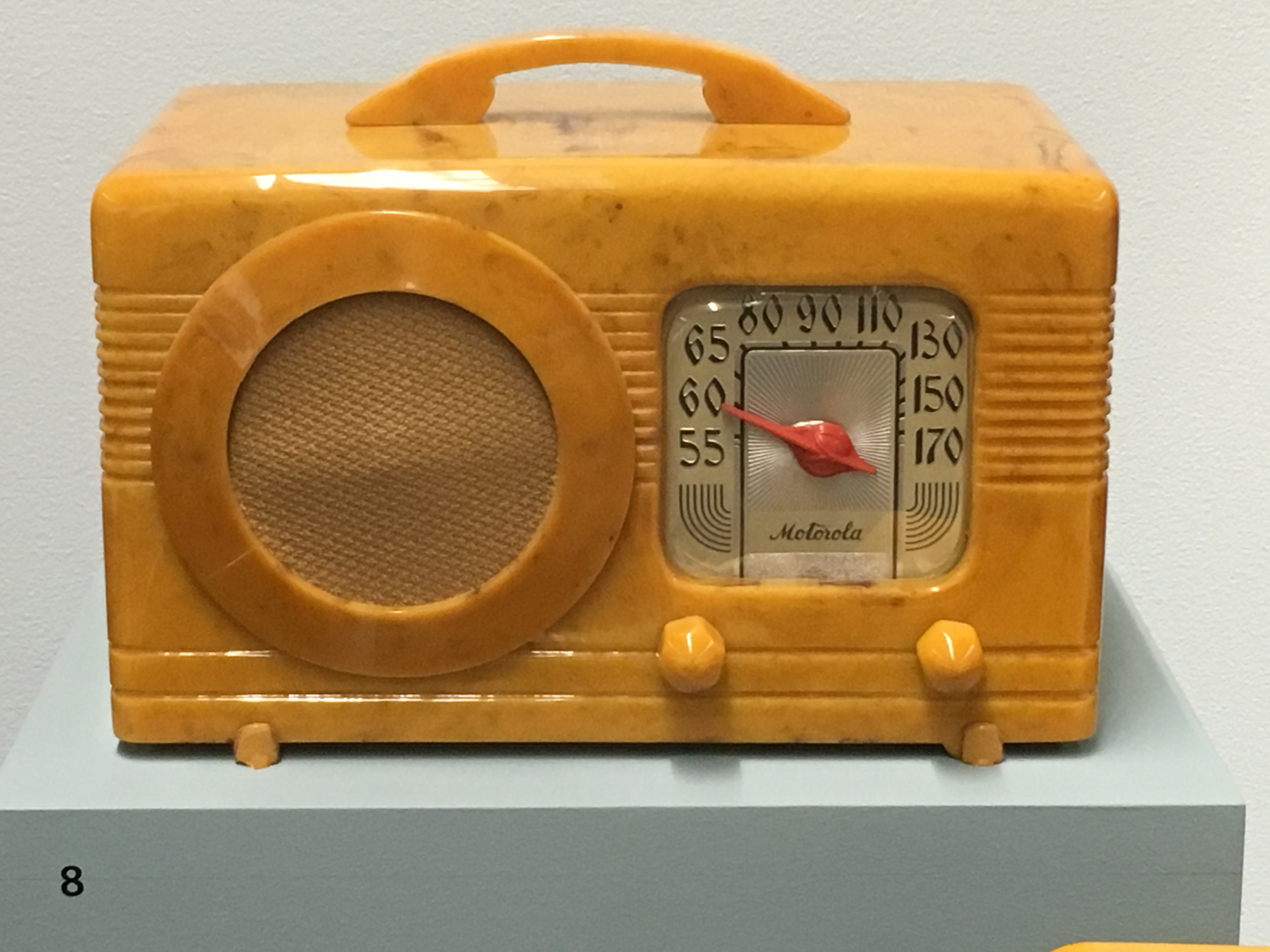 Motorola Model 50XC (1940) radio. Manufactured by Motorola, Inc. in Schaumburg, Illinois. Catalin. On display at SFO Museum "On The Radio" exhibition in 2018.